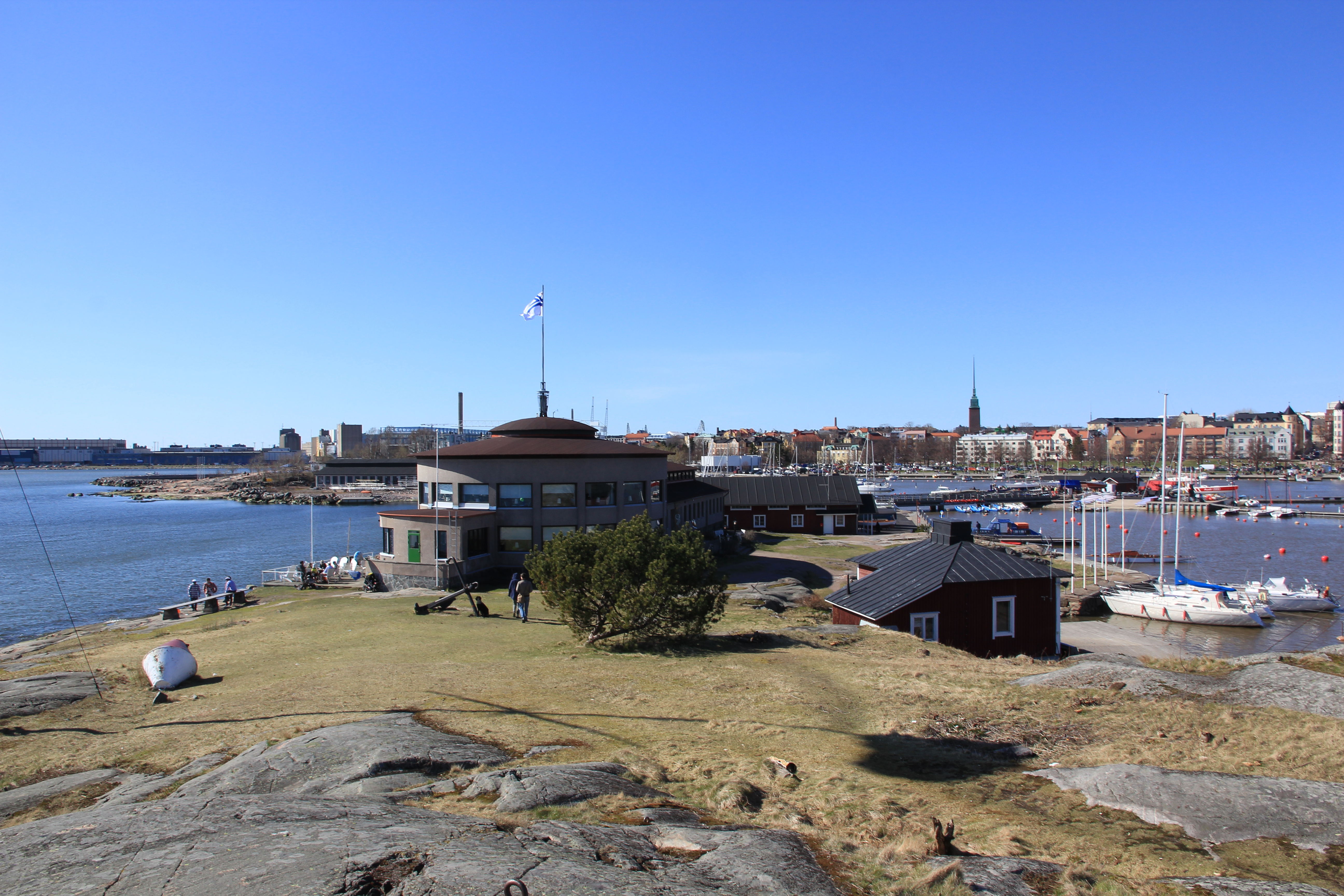 Liuskasaari island with Helsingfors Segelsällskap yacht club building.